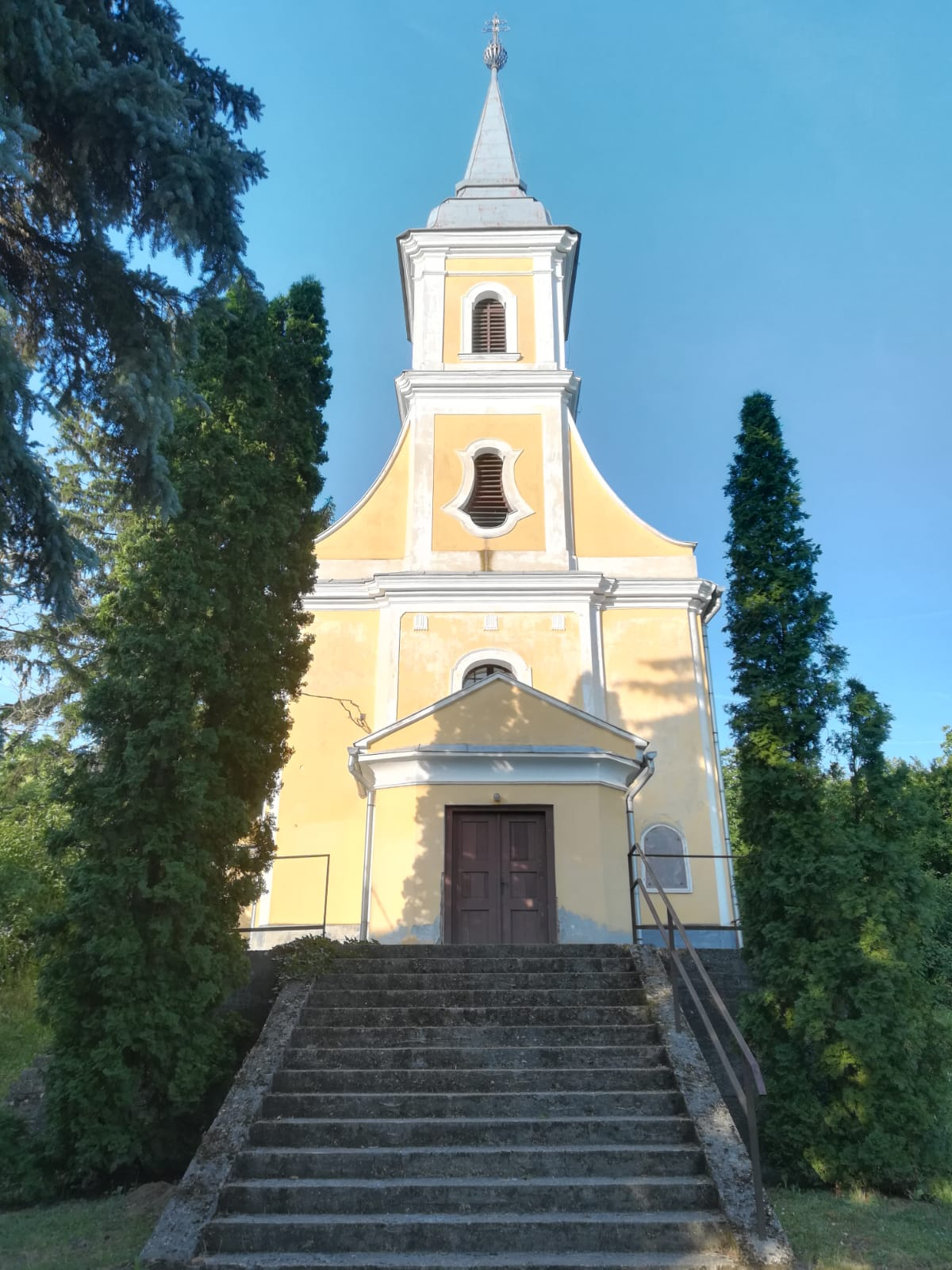 Address: Szabadság utca, Kapoly